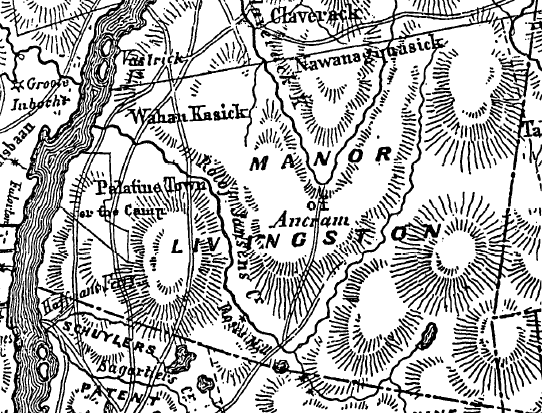 1779 map of Livingston Manor and neighboring colonial land grants